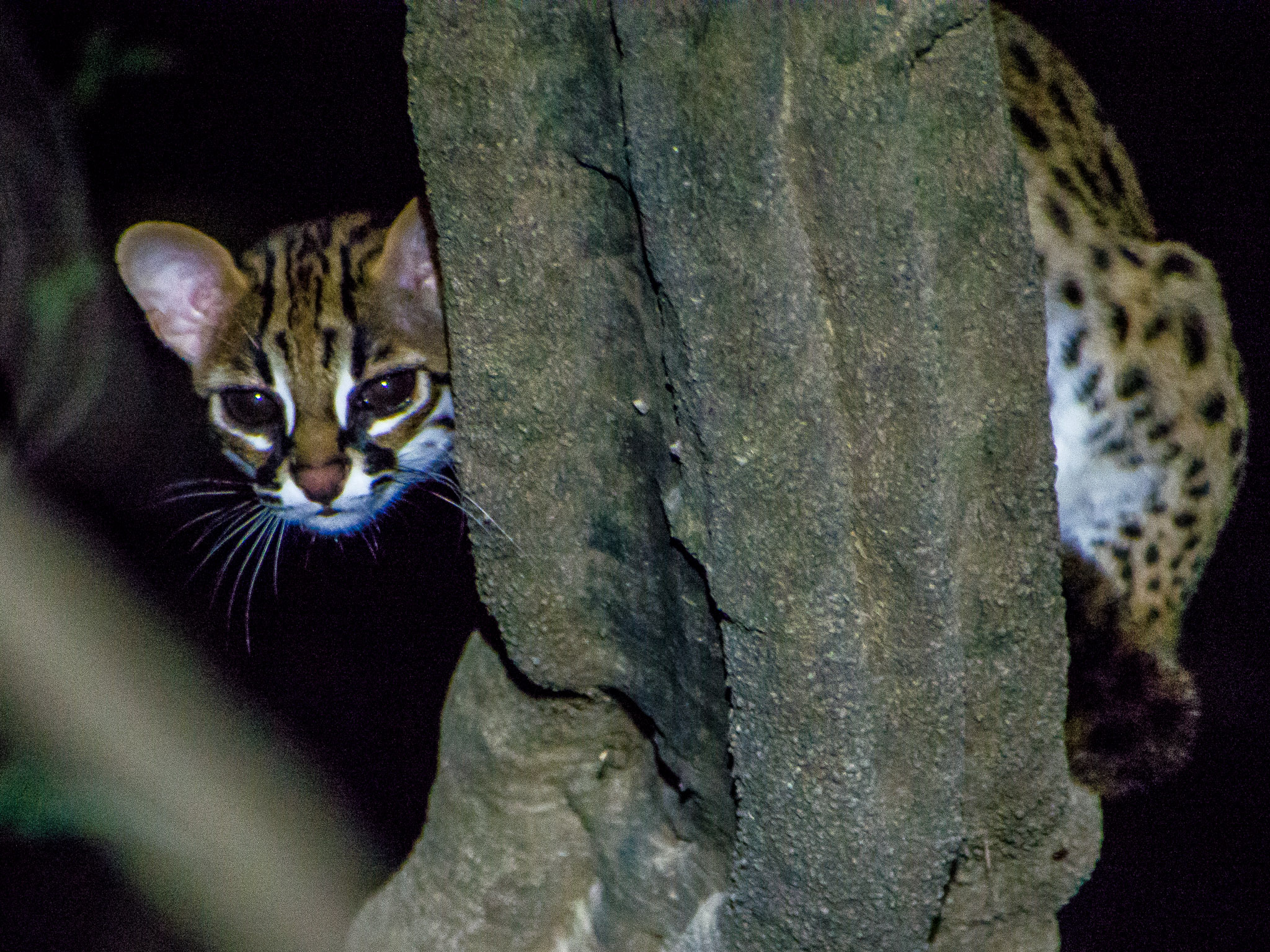 Perched 1/2m up a tree, along the banks of the Kinabatangan River